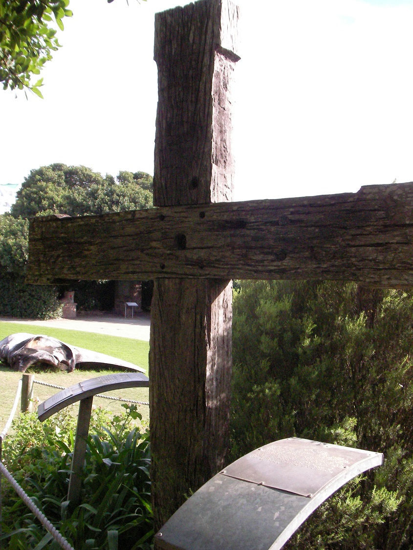 This media shows a South African Protected Site with SAHRA file reference 9/2/064/0003.